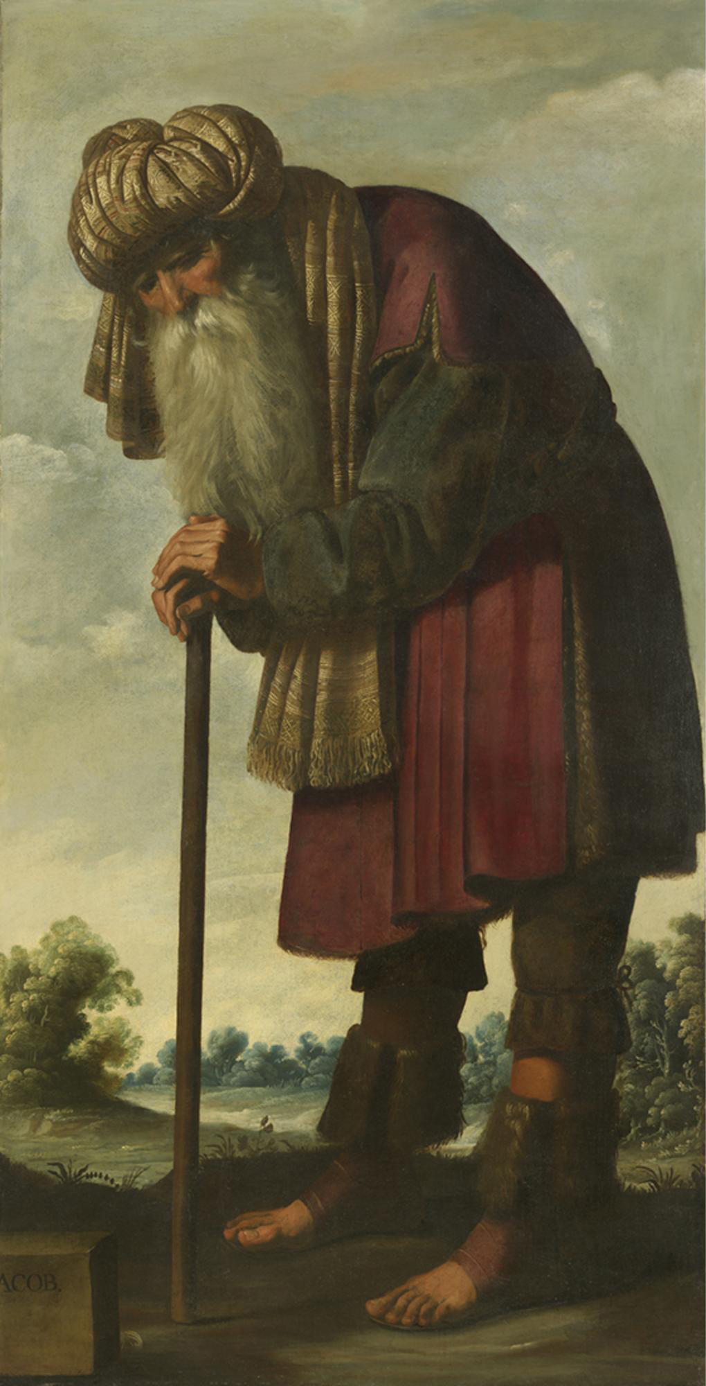 1640-1645 painting of the biblical patriarch by Francisco de Zurbarán